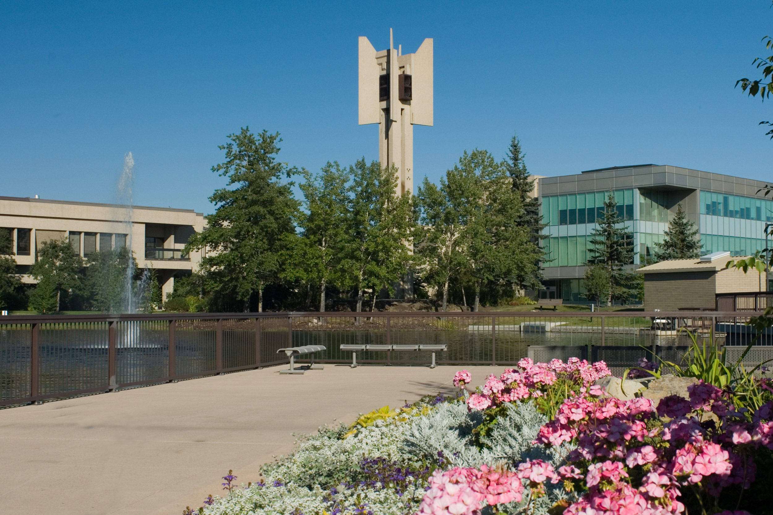 Mount Royal College in Calgary, Alberta. Photo by Chuck Szmurlo taken August 24, 2007 with a Nikon D200 and a Nikon 28-70 f2.8 lens.